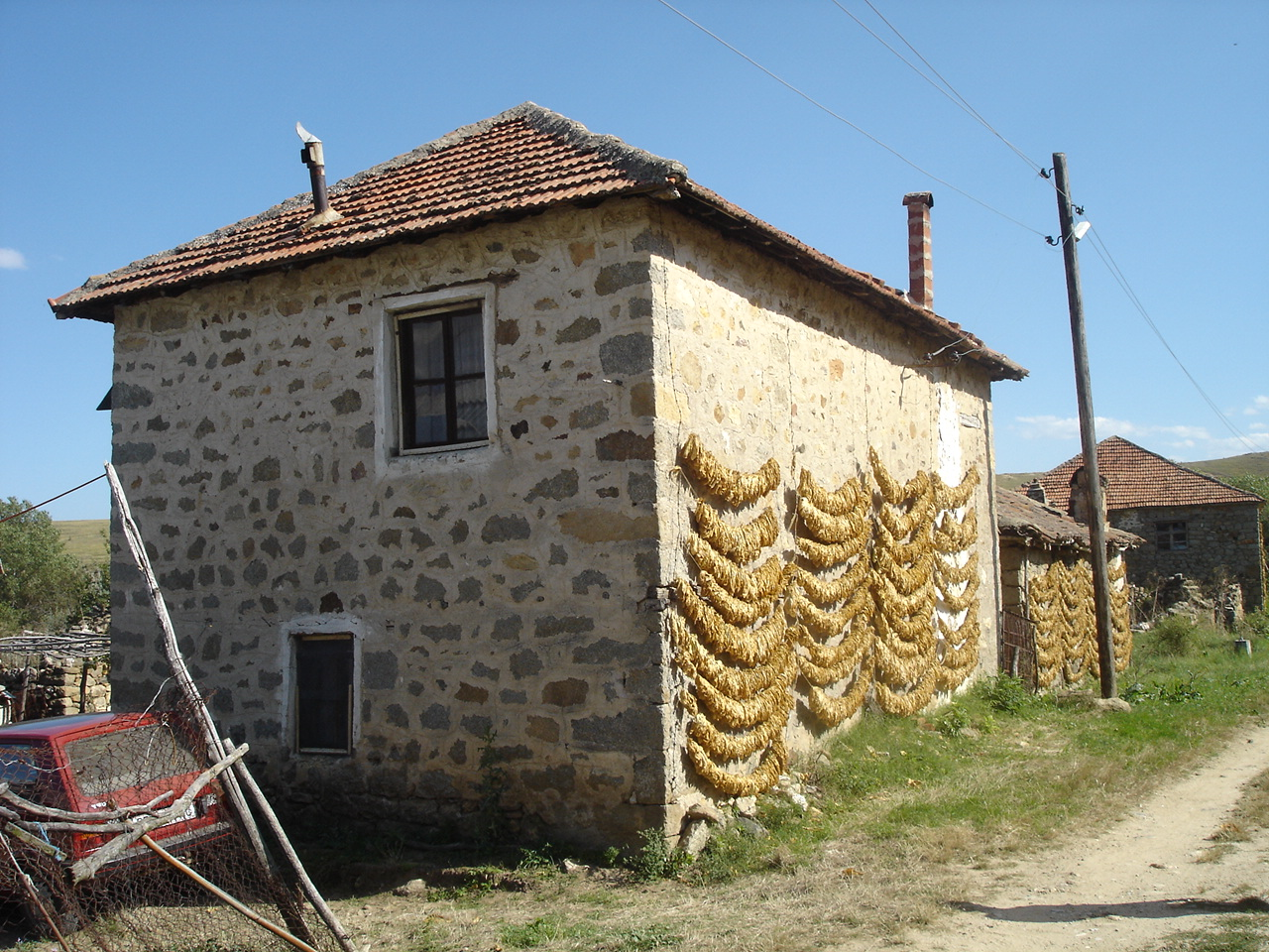 Drying tobacco in village of Krushevica, Mariovo region, Macedonia